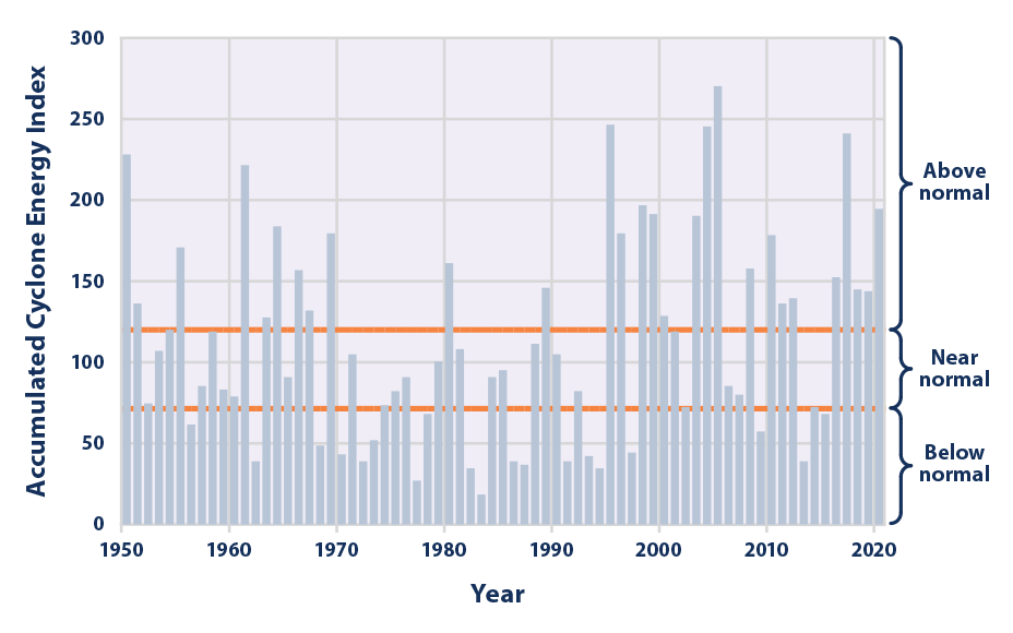 North Atlantic Tropical Cyclone Activity According to the Accumulated Cyclone Energy Index, 1950–2015. This figure shows total annual Accumulated Cyclone Energy (ACE) Index values, which account for cyclone strength, duration, and frequency, from 1950 through 2015. The National Oceanic and Atmospheric Administration has defined “near normal,” “above normal,” and “below normal” ranges based on the distribution of ACE Index values over the 30 years from 1981 to 2010. Data source: NOAA, 2016